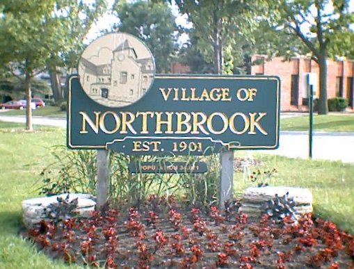 Northbrook welcome sign